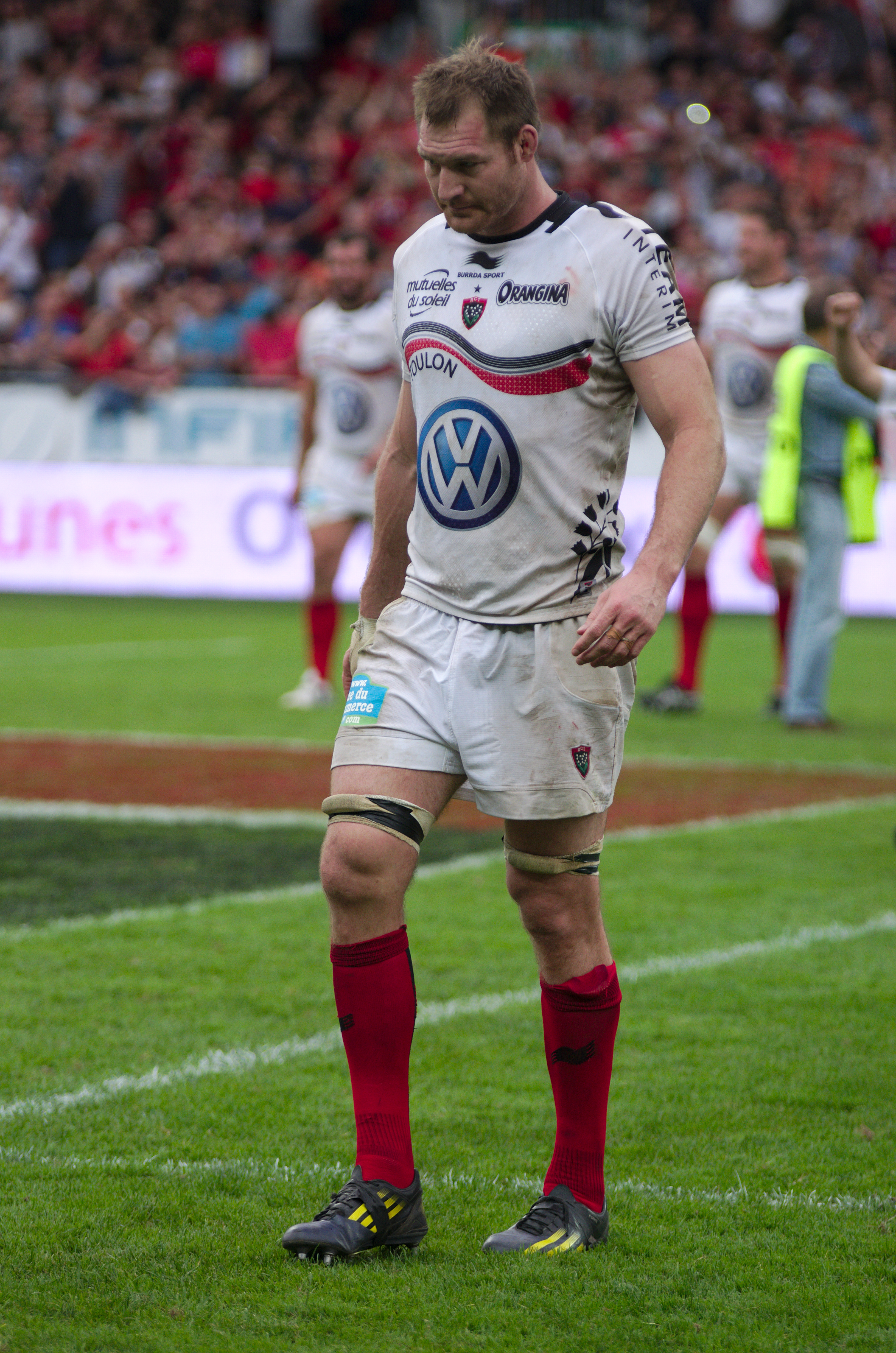 USO - RCT - 28-09-2013 - Stade Mathon - Alexander Williams